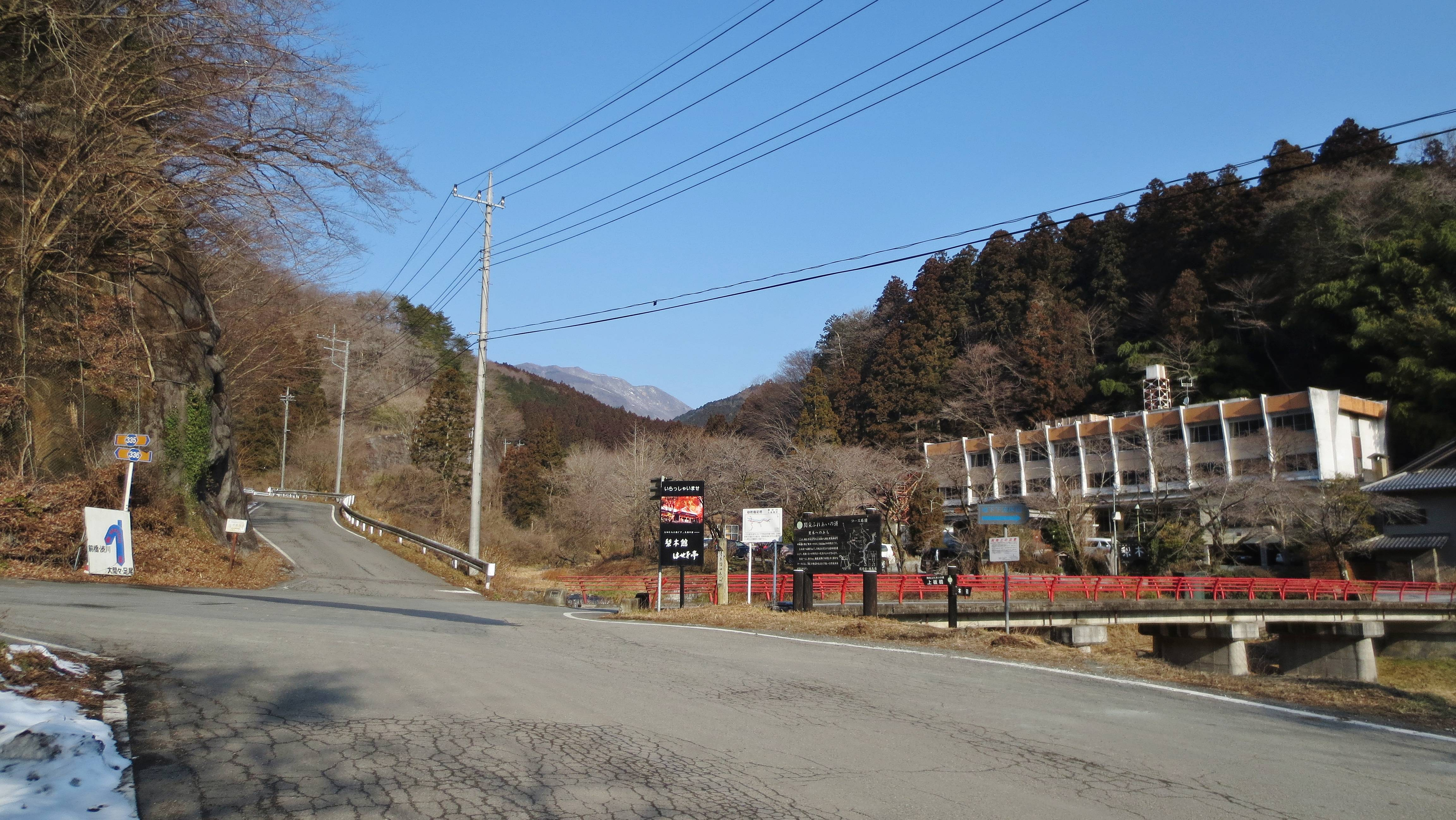 Nashigi Onsen.